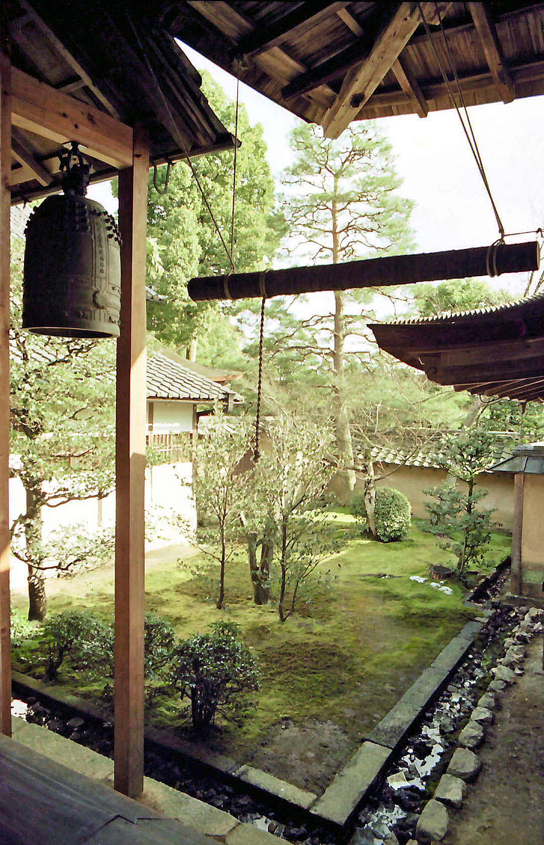 Ryoan-Ji, The Garden behind the building